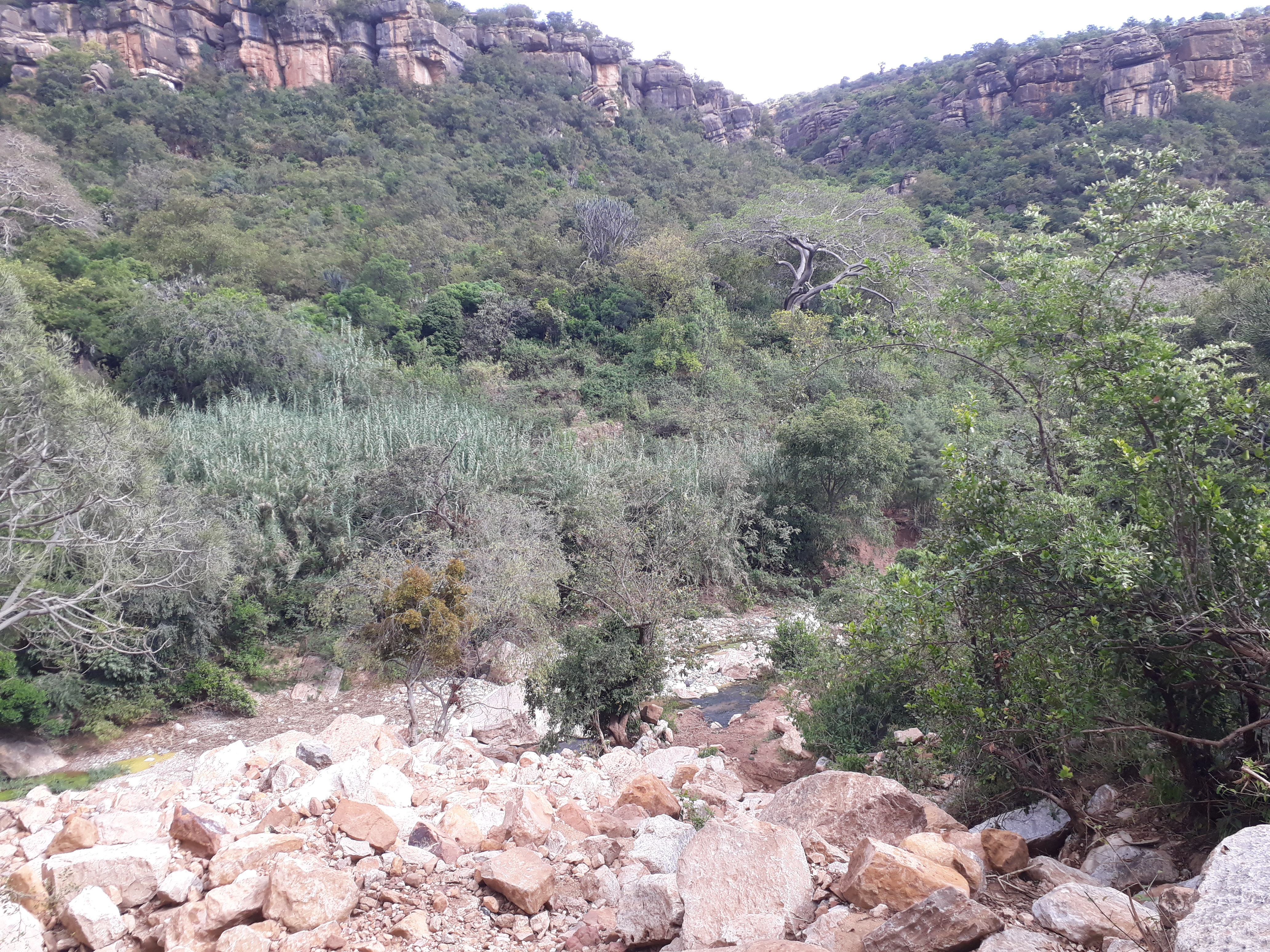 Inda Abba Hadera forest